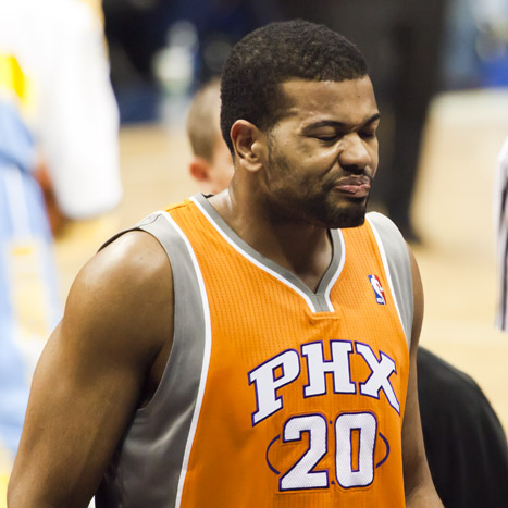 Garrett Siler of the Phoenix Suns in Denver, CO.